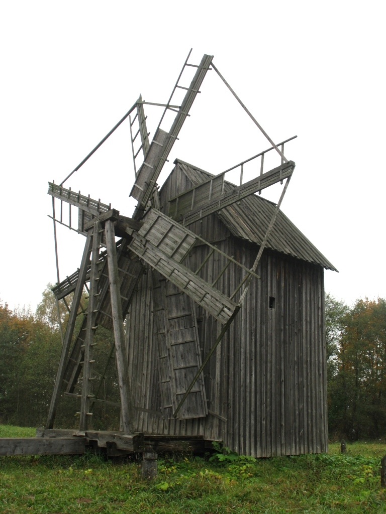 Traditional Windmill of Belarus, Stroczycy